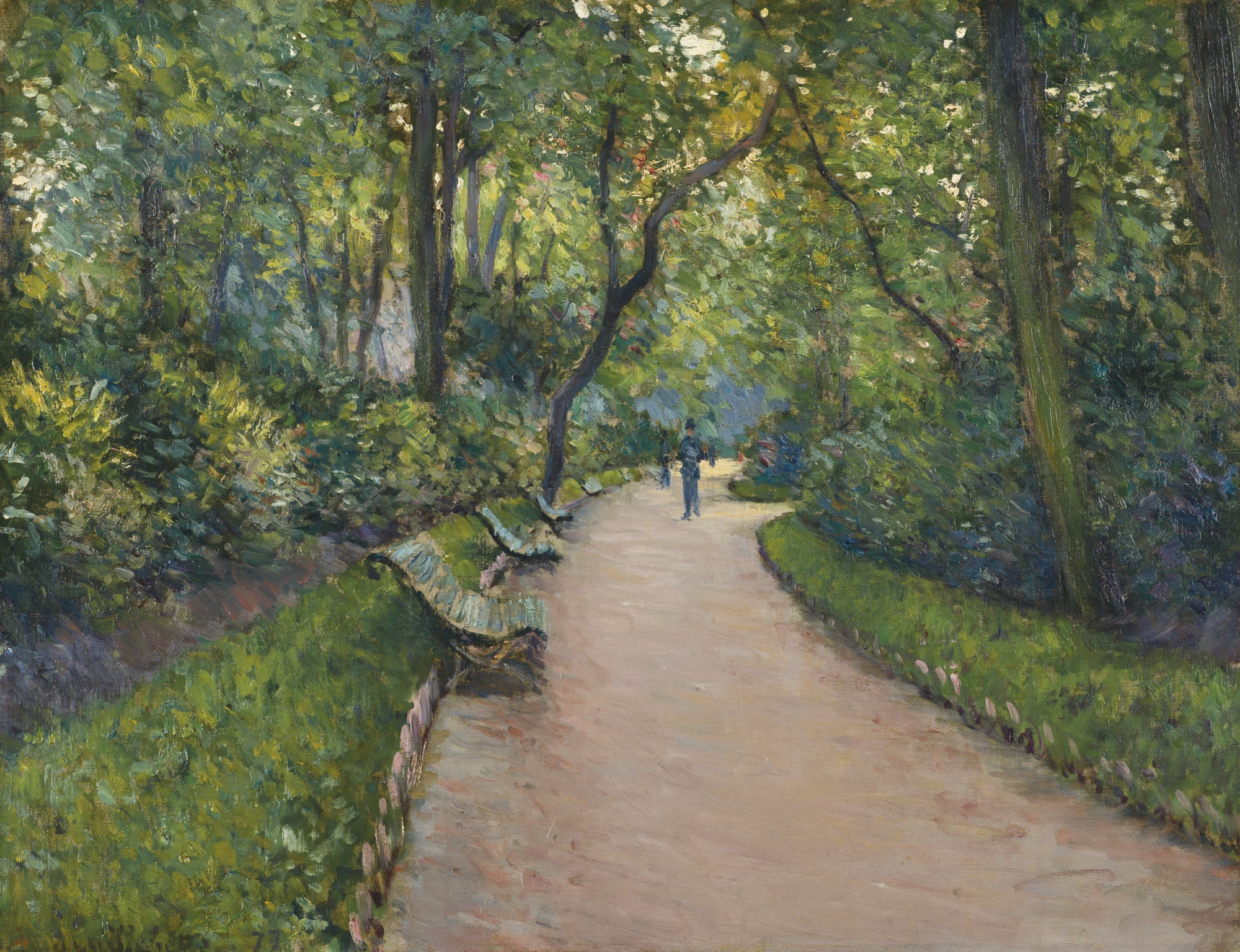 GUSTAVE CAILLEBOTTE (1848 - 1894), LE PARC MONCEAU, signed G. Caillebotte and dated 77 (lower left), oil on canvas, 50 by 65cm. Painted in 1877.